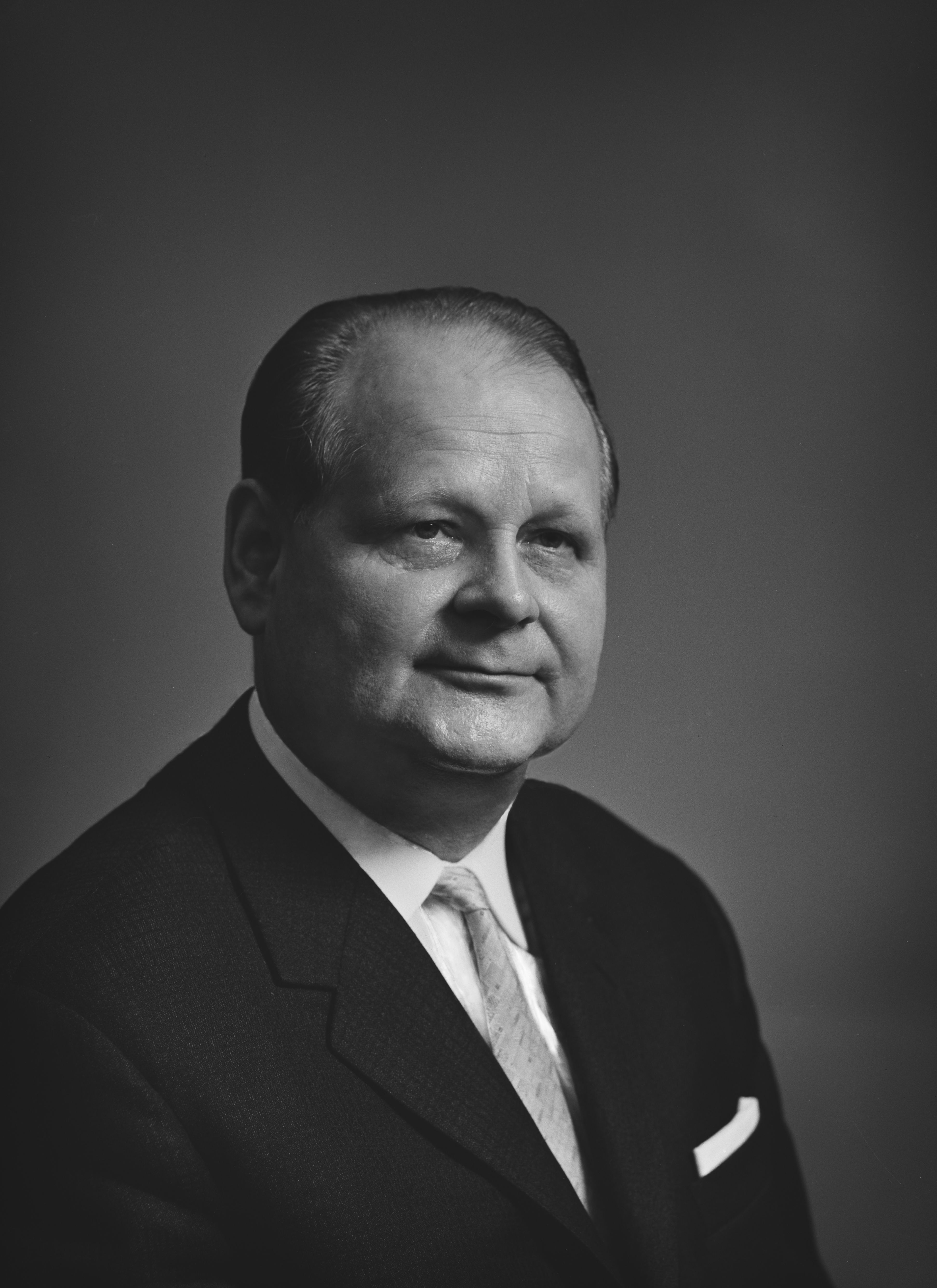 Photograph of the Finnish lawyer and administrator Oiva Saloila (1910–1998).